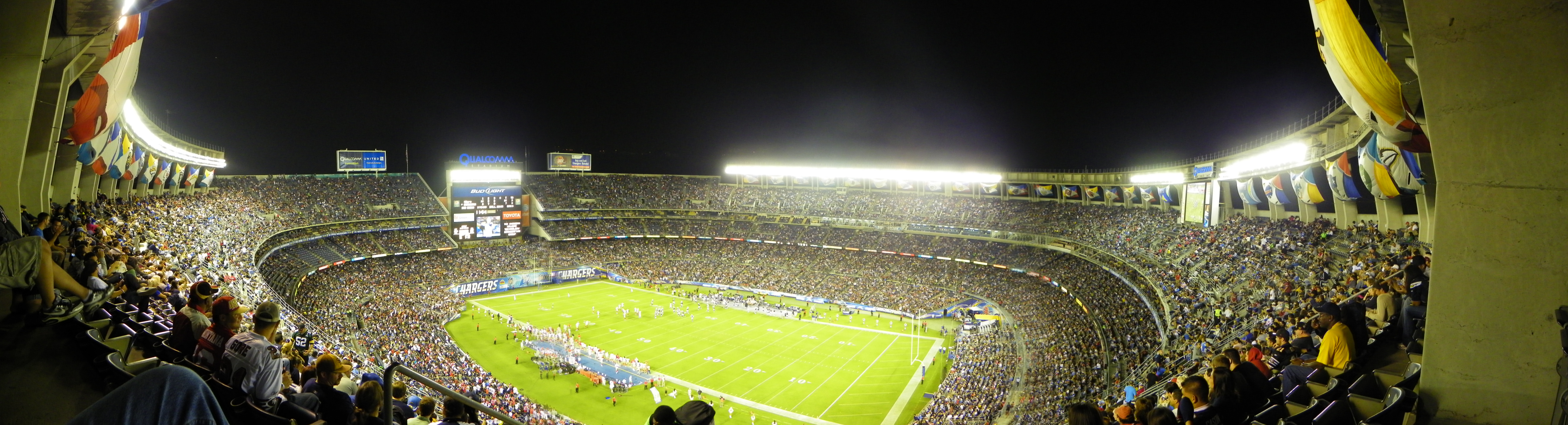 Qualcomm Stadium during a preseason Chargers football game.